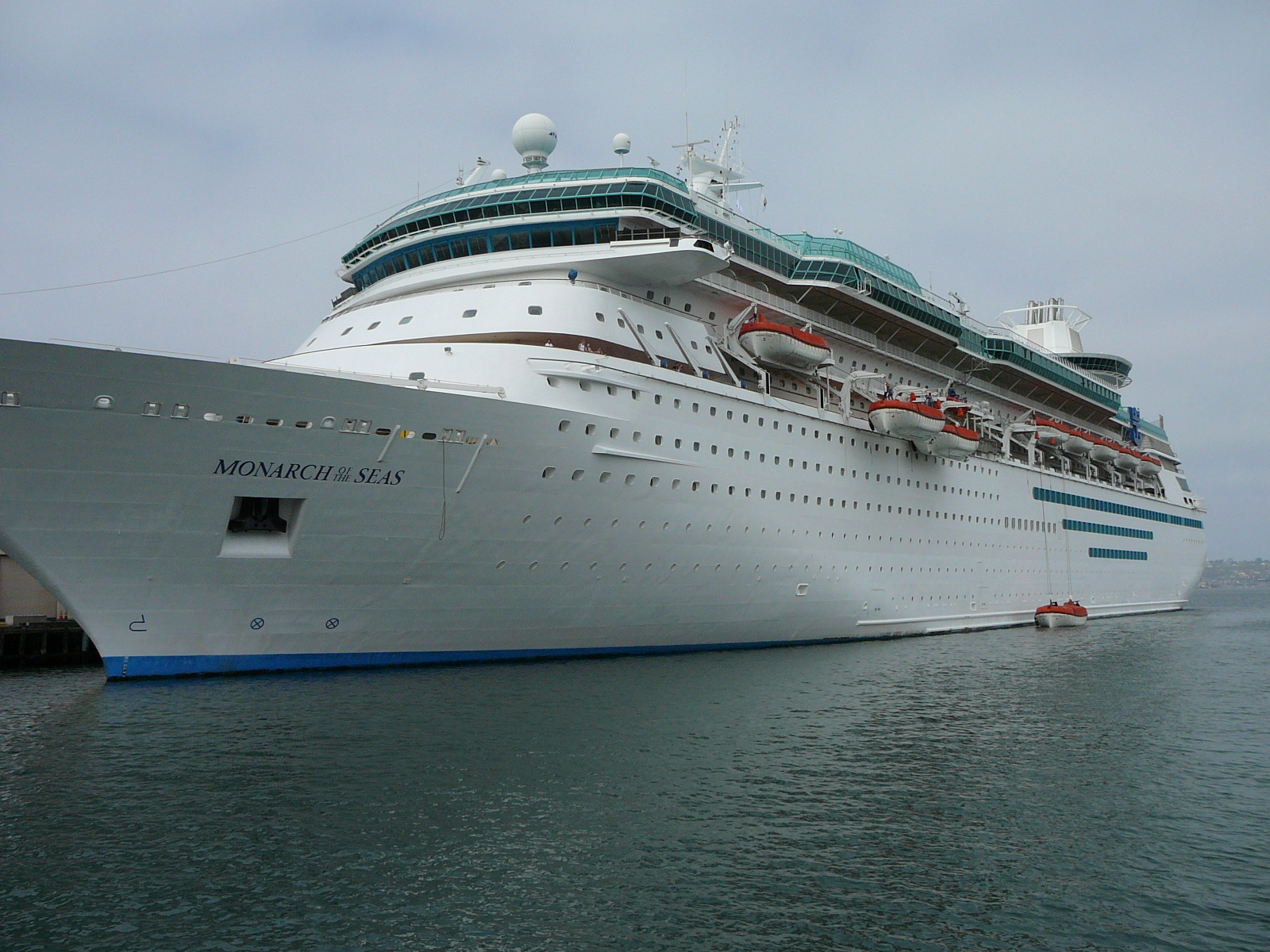 Royal Caribbean International's Monarch of the Seas docked at the Port of San Diego.